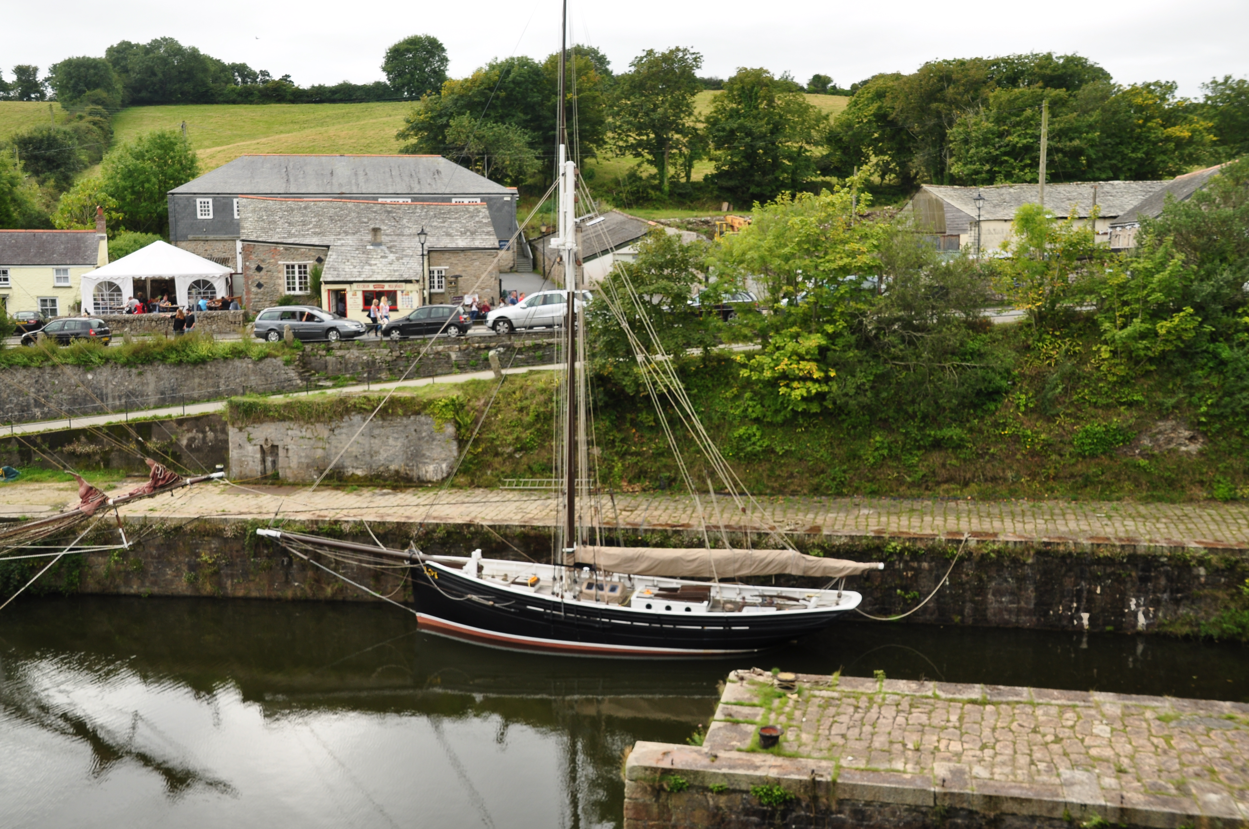 Charlestown Shipwreck and Heritage Centre